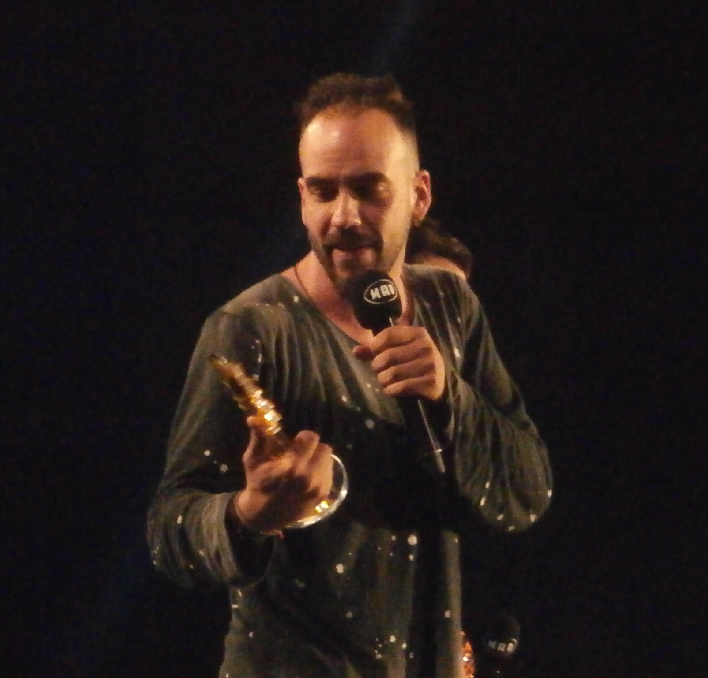 Panos Mouzourakis, receiving his second award at MAD Video Music Awards 2017